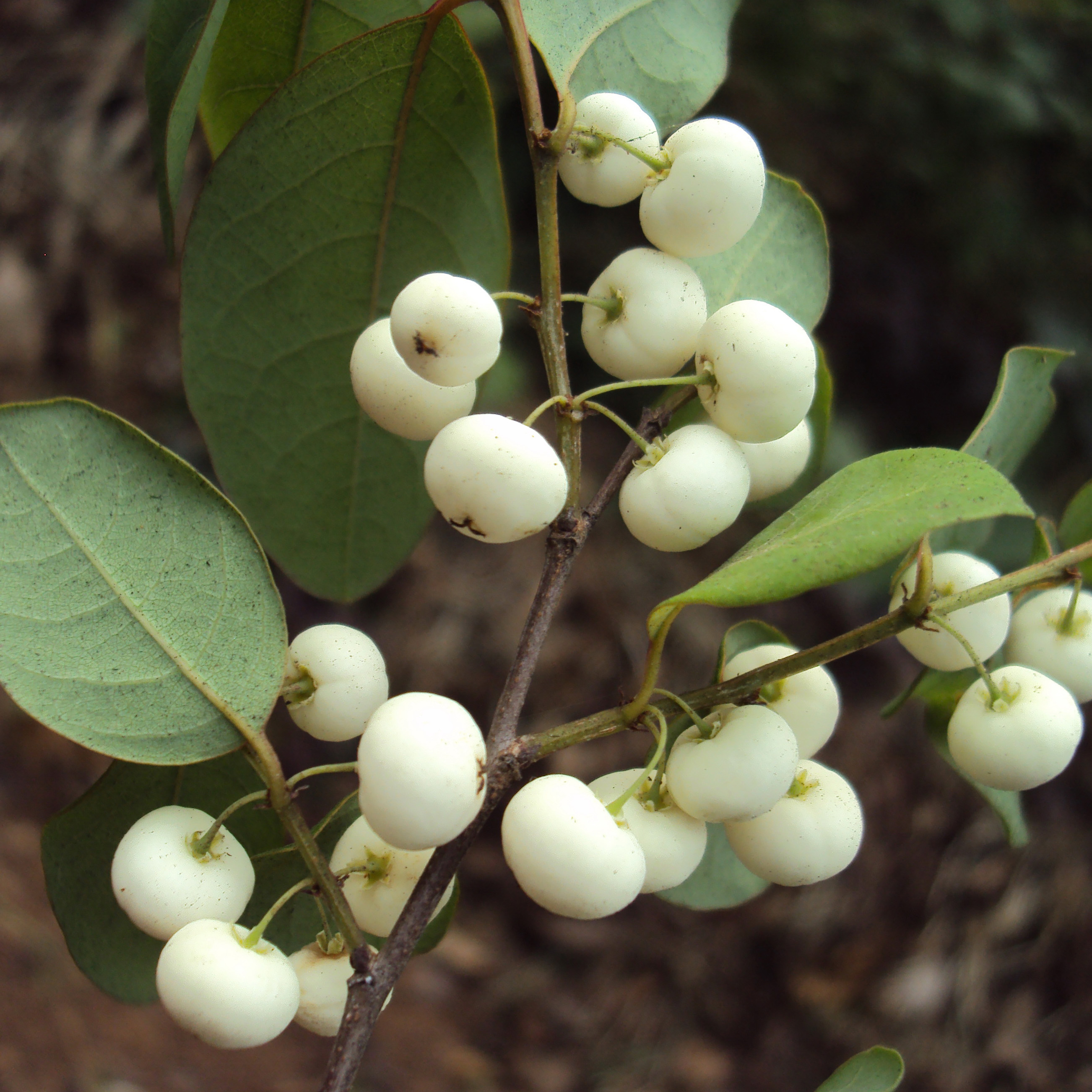 Flueggea leucopyrus